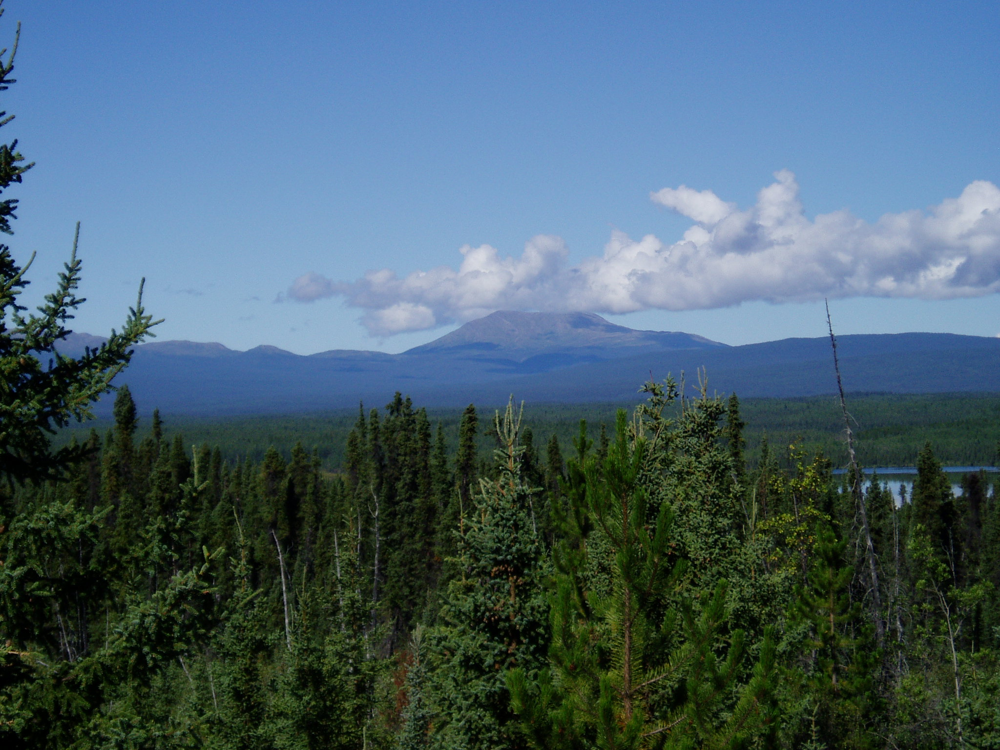 Although Mount Edziza can be seen from at least two places on the Cassiar-Steward Highway, the mountain shown in this photo is NOT Mount Ediza!!!